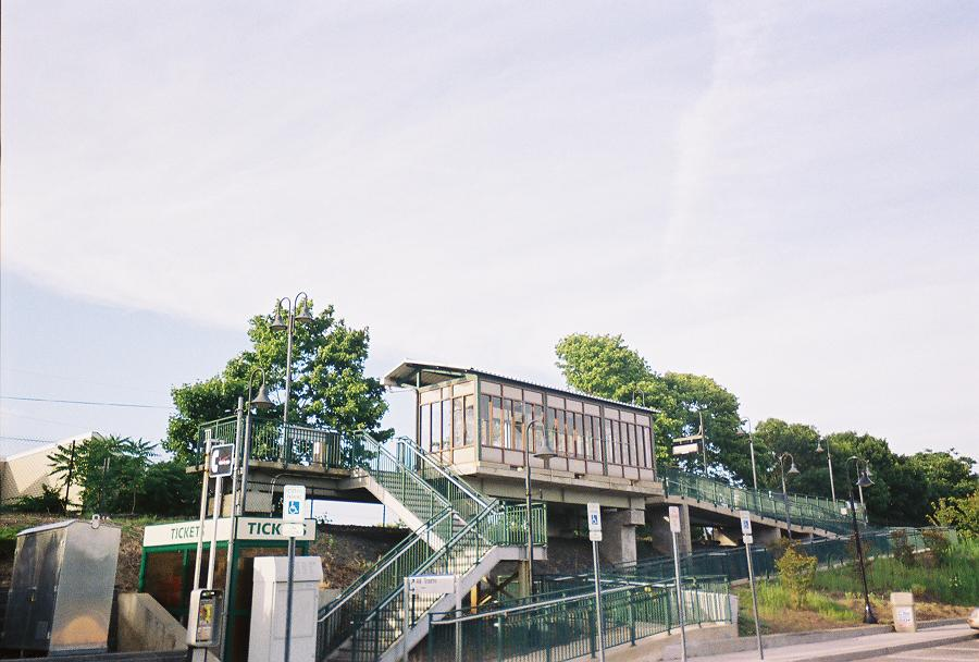 Photograph of the Long Island Rail Road's Medford Station taken by me from the parking lot on June 30, 2007.